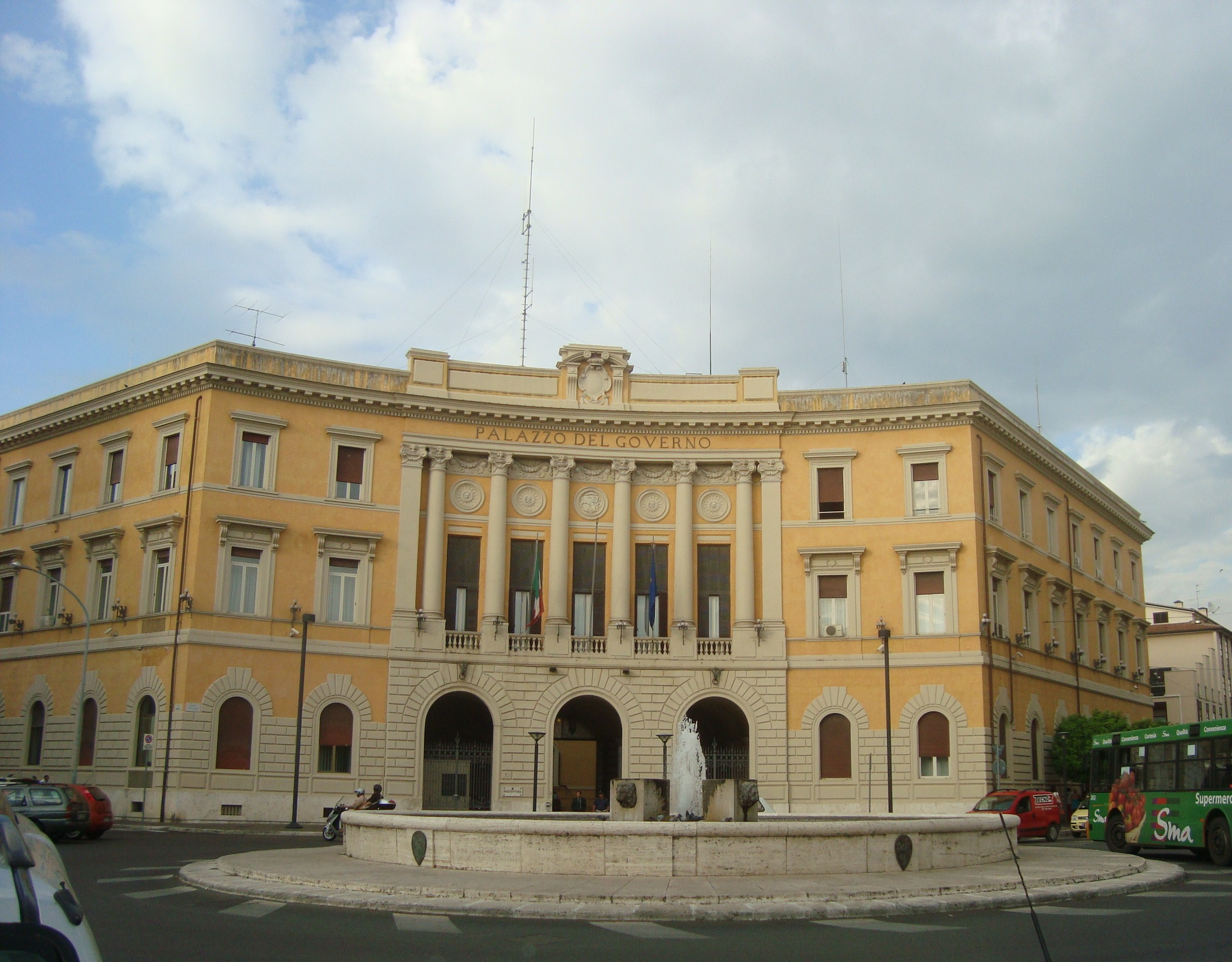 Palazzo del Governo in Grosseto